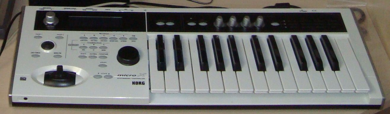 Korg microX Synthesizer/Controller utilizing HI (Hyper Integrated) synthesis from TRITON series “The X50 and MicroX, released in [2006 or] 2007, were oriented towards the lower end of the market and were consequently less physically robust and included fewer features. They contained the same HI synthesis engine found on the TR with the basic Triton and extended ROM: the X50 maintains the same extended ROM as the TR, while the MicroX extended ROM focused more on drum and percussion samples.” —English Wikipedia article Korg Triton